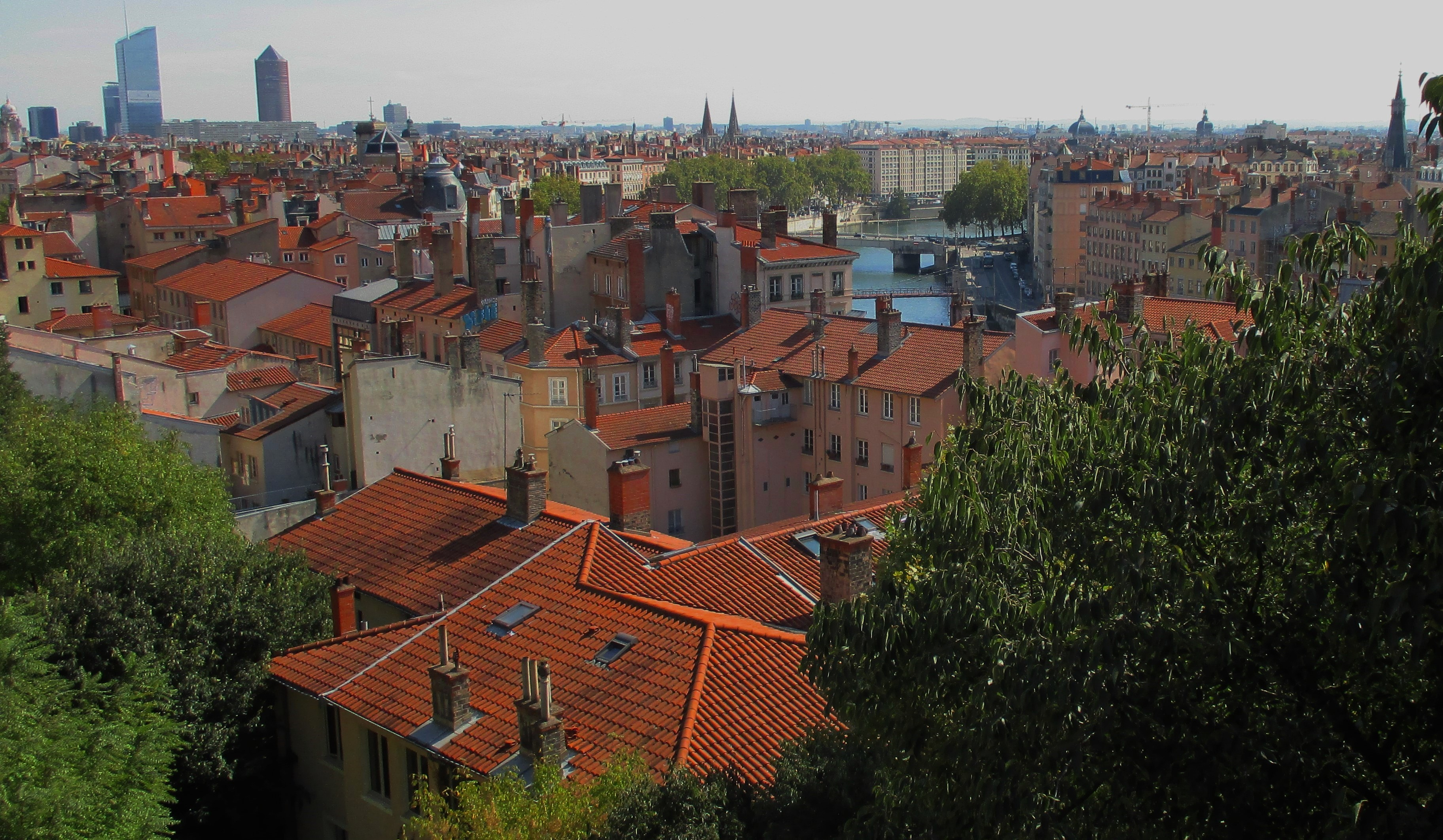 Lyon seen from the Croix-Rousse hill